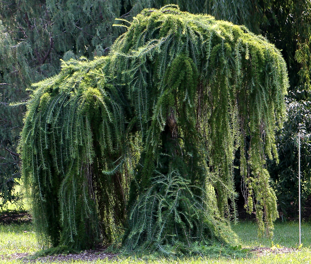 Self made image of Larix decidua var. pendula taken summer of 2008 at the landscape arbortium of Minnesota